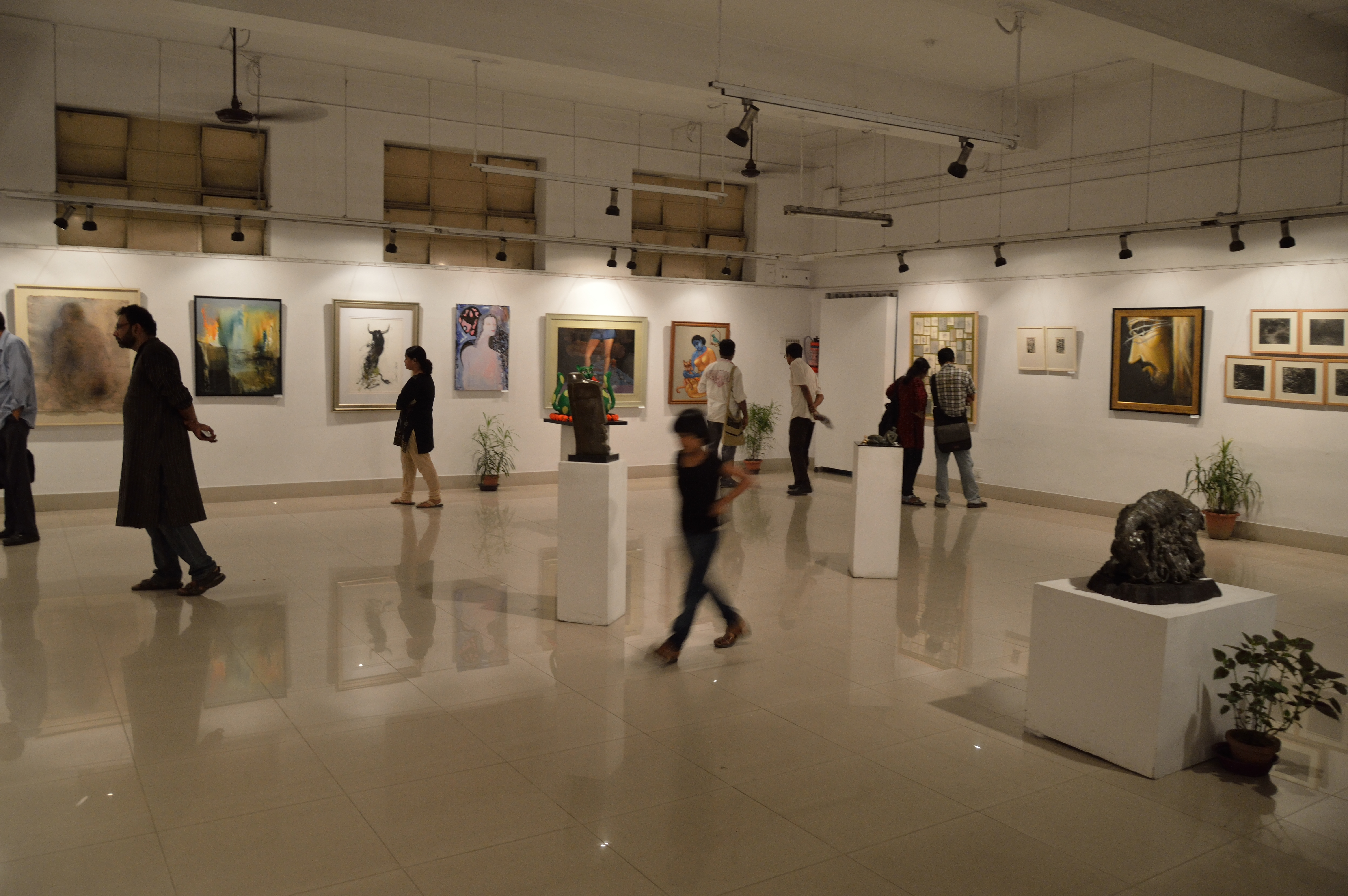 Bengal theatre group 'Sudrak' organised a seven day art exhibition from 3-9 October, 2012, the 'Sudrak Utsav 2012' at the Academy of Fine Arts, Kolkata, to commemorate the successful completion of 35 years by the group. The exhibition comprised of painting, sculptures of some very renowned artists from Kolkata. Among the artists whose works were exhibited in 'Sudrak Utsav' were Ganesh Haloi, Wasim Kapoor, Jogen Chowdhury, Ramananda Bandyopadhyay, Eleena Banik, Tapas Sarkar, Samir Aich with others.